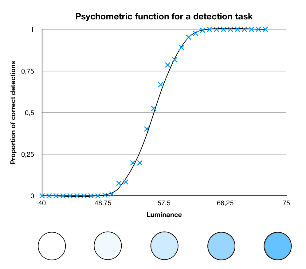 I created this file with Apple Numbers. The data are generated by adding some noise to a sequence of numbers and throwing a sigmoid function on them.